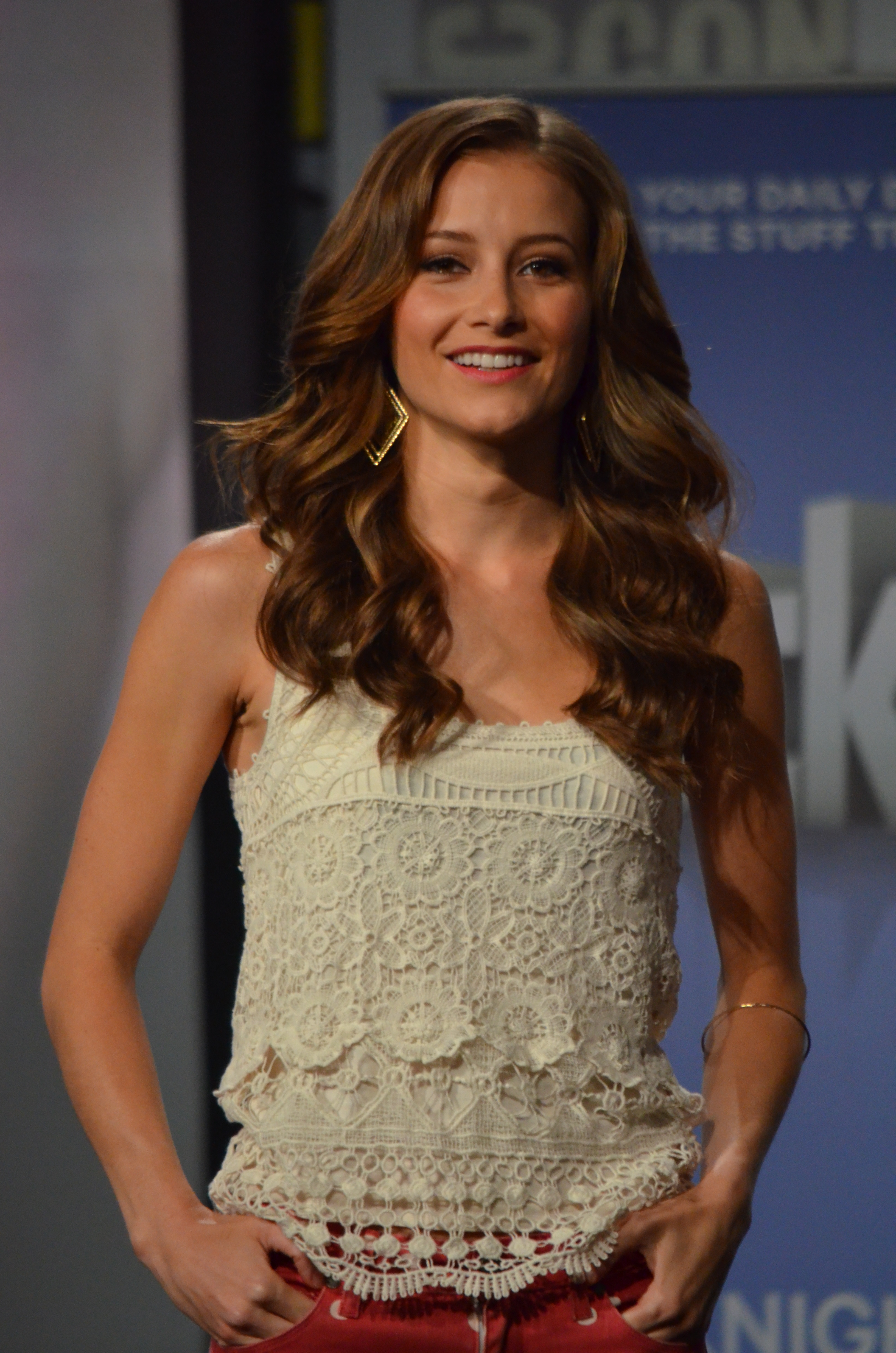 American actress Candace Bailey at Comic-Con in July 2012.